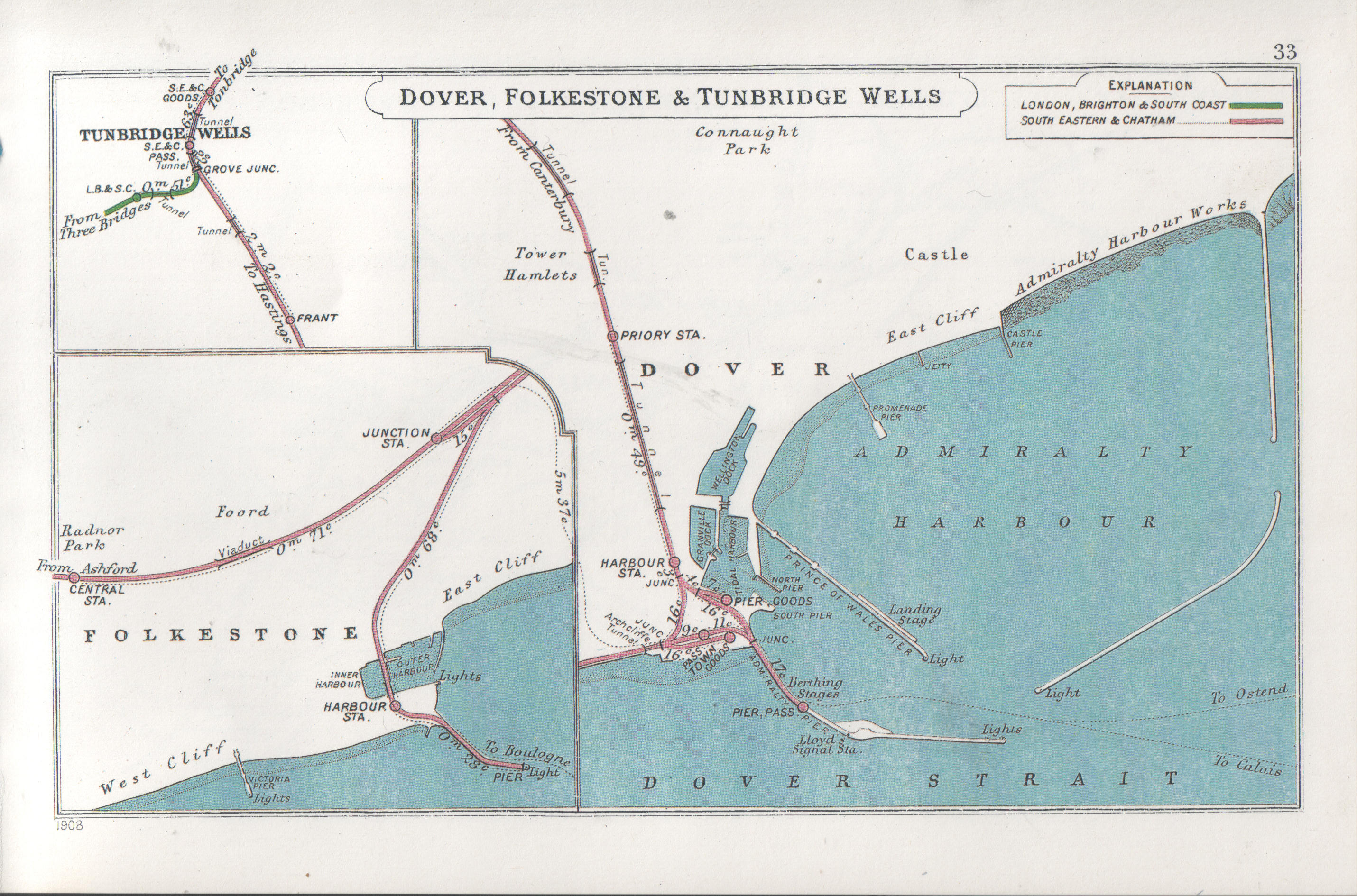 Pre Grouping railway junction around Dover, Folkestone & Tunbridge Wells